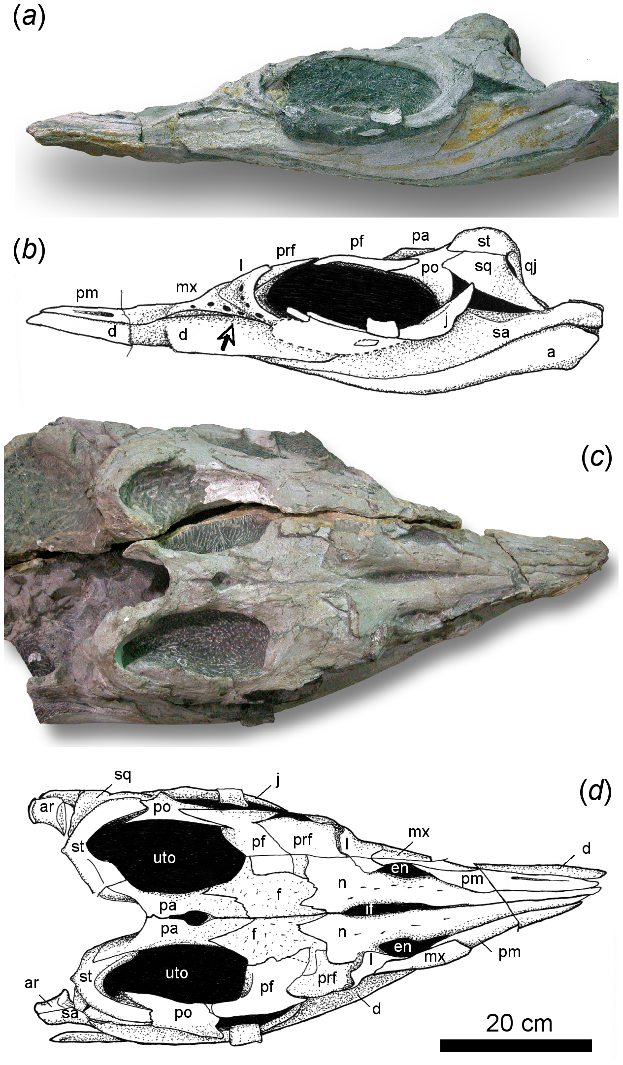 Skull anatomy of Shastasaurus liangae comb. nov. Photograph and drawing of skull of YGMIR SPCV03107. (A) in left lateral view. Note the greatly abbreviated rostrum, the complete lack of teeth, the large foramina in the maxillary and lacrimal bones, and the dorsally convex coronoid region of the dentary (arrow). (B) in dorsal view. Note the nasals extending to the tip of the rostrum. Abbreviations: a, angular; ar, articular; d, dentary; en, external nares; f, frontal; if, internasal foramen; j, jugal; l, lacrimal; mx, maxilla; pa, parietal; pf, postfrontal; pm, premaxilla; po, postorbital; prf, prefrontal; qj, quadratojugal; sa, surangular; sq, squamosal; st, supratemporal; uto, upper temporal opening.